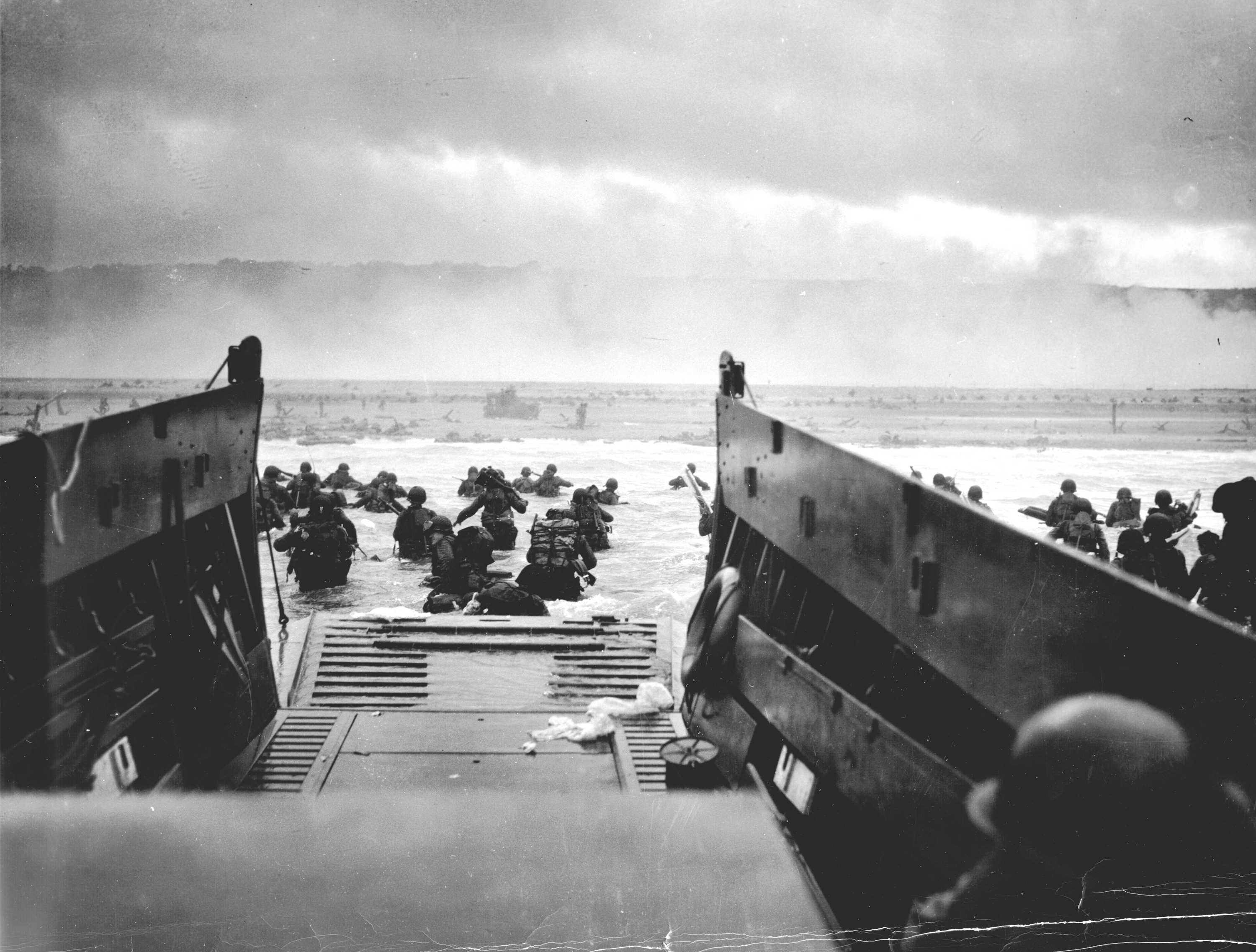 A LCVP (Landing Craft, Vehicle, Personnel) from the U.S. Coast Guard-manned USS Samuel Chase disembarks troops of the U.S. Army's First Division on the morning of June 6, 1944 (D-Day) at Omaha Beach.